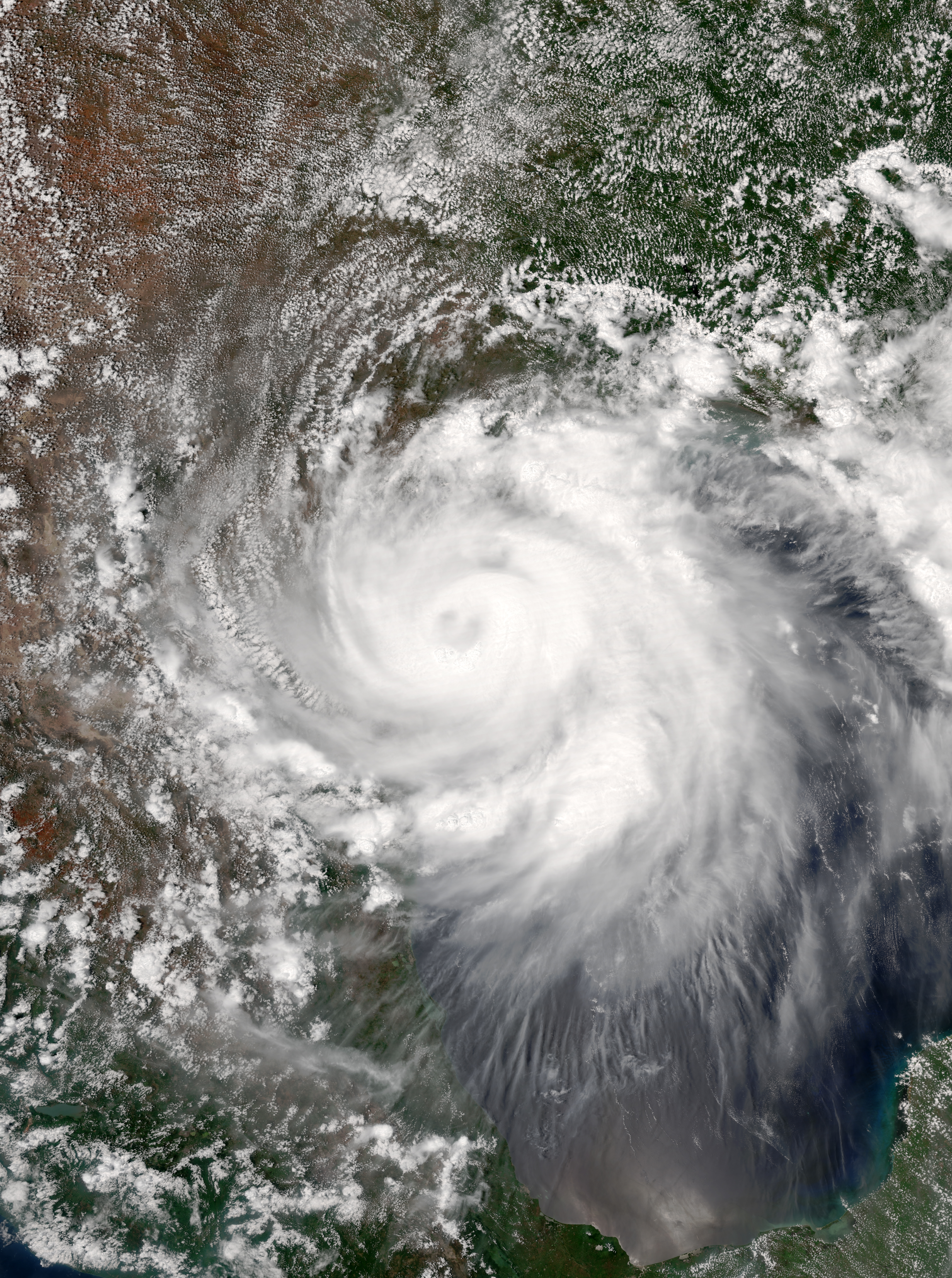 Hurricane Hanna on July 25, 2020